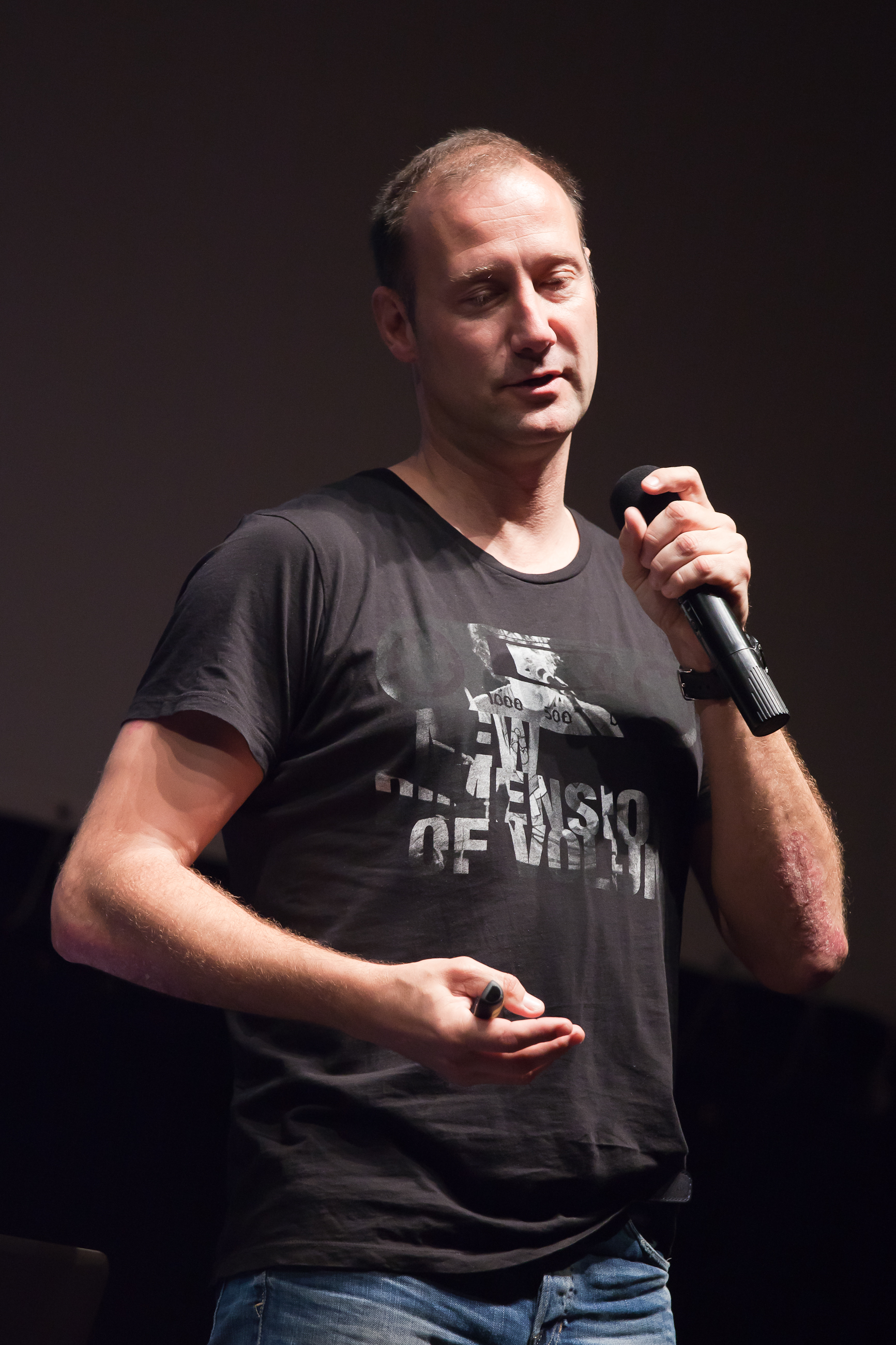 Pedro García Aguado, water polo player from Spain, Tv Presentator, Writer, Therapist